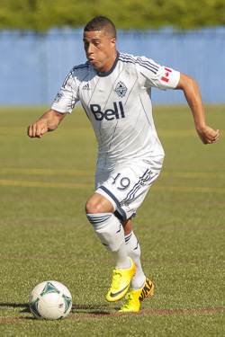 Photo of soccer player Erik Hurtado.